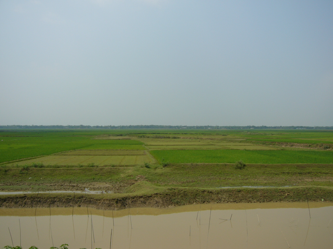 Author: Shahnoor Habib Munmun